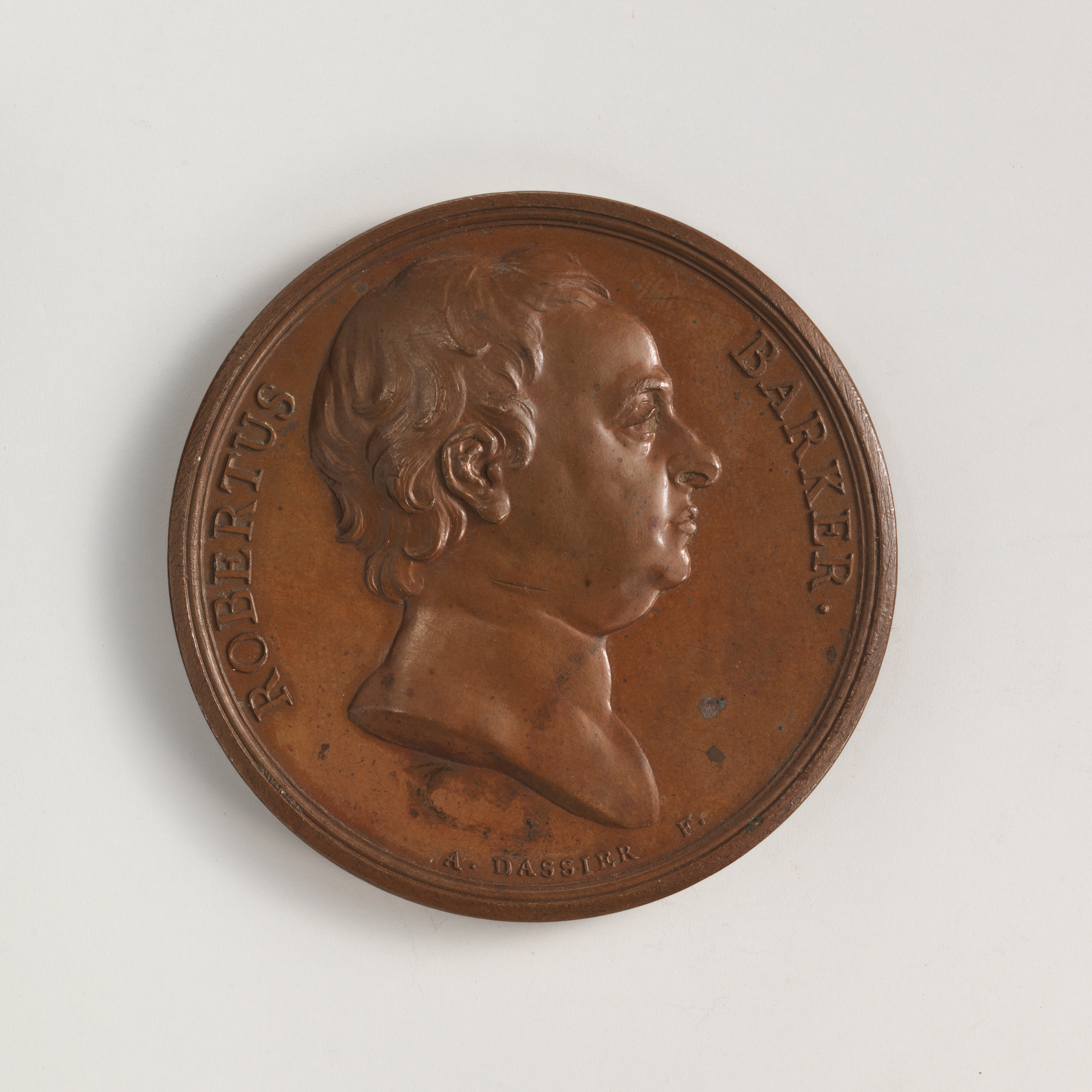 Swiss; Medal; Medals and Plaquettes